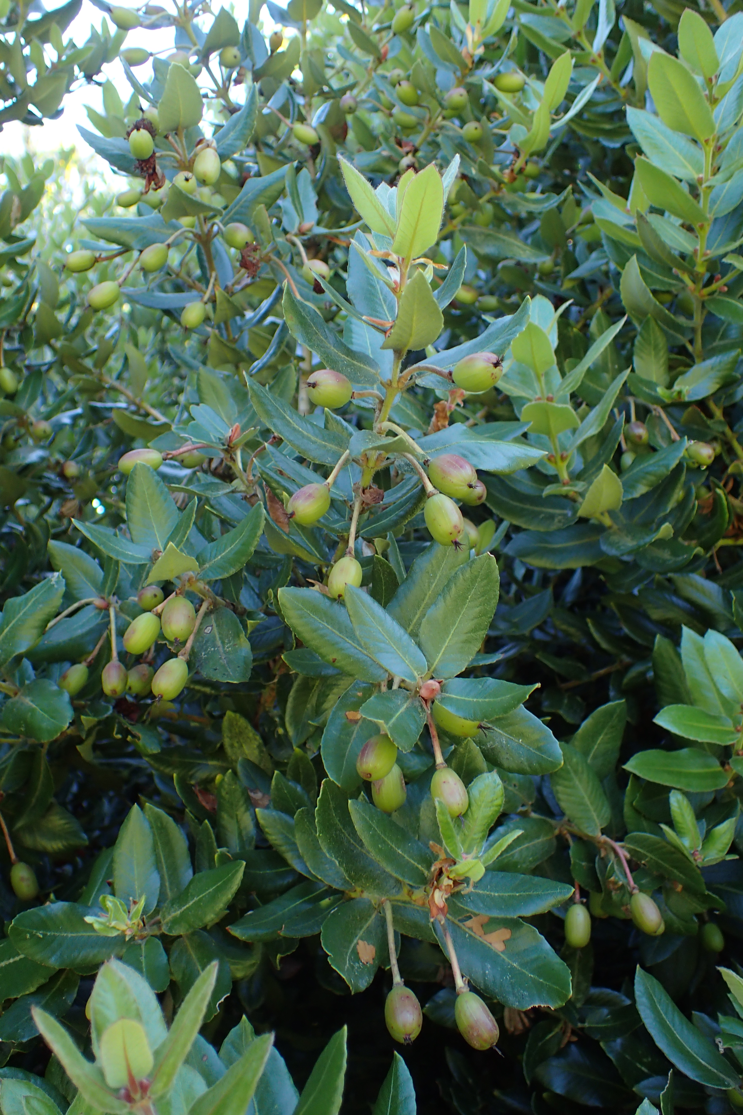 Eucryphia cordifolia in Dunedin Botanic Garden, New Zealand